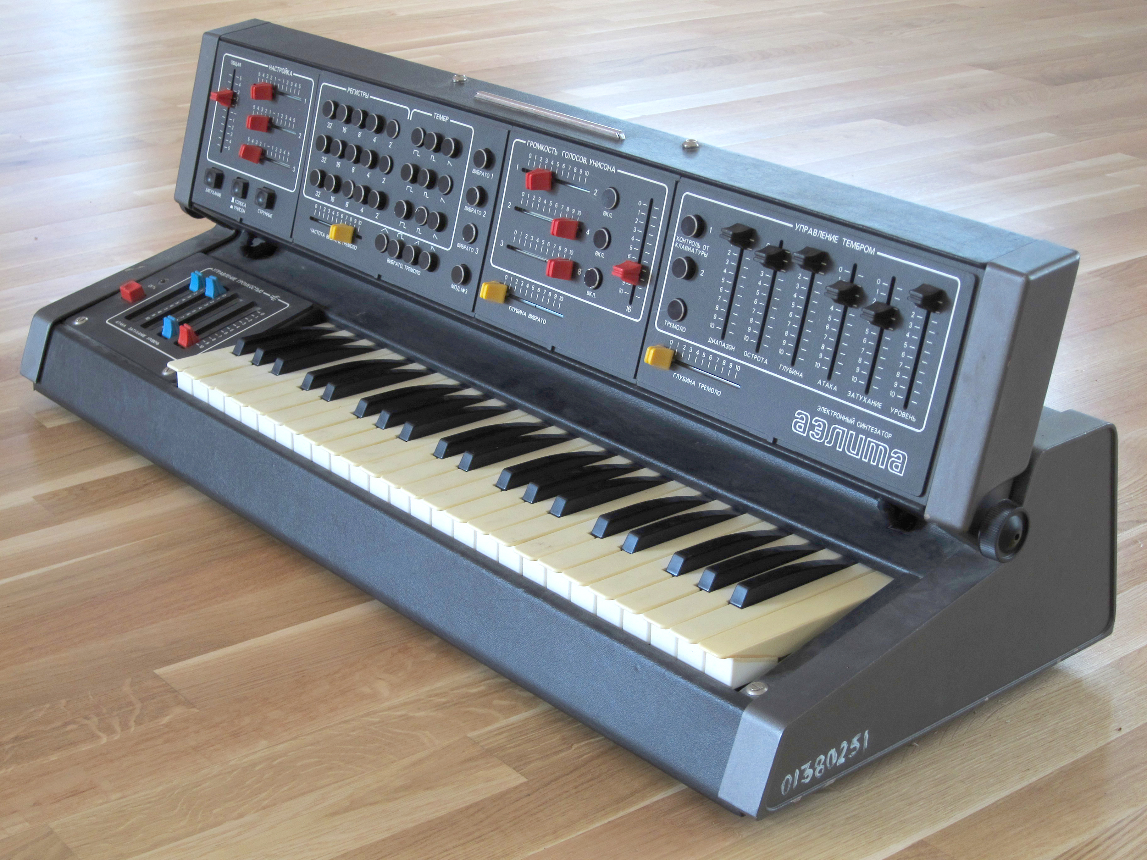 The Aelita synthesizer, a monophonic analog electronic synthesizer from the 1980s, manufactured in the Murom radio plant in the Soviet Union.